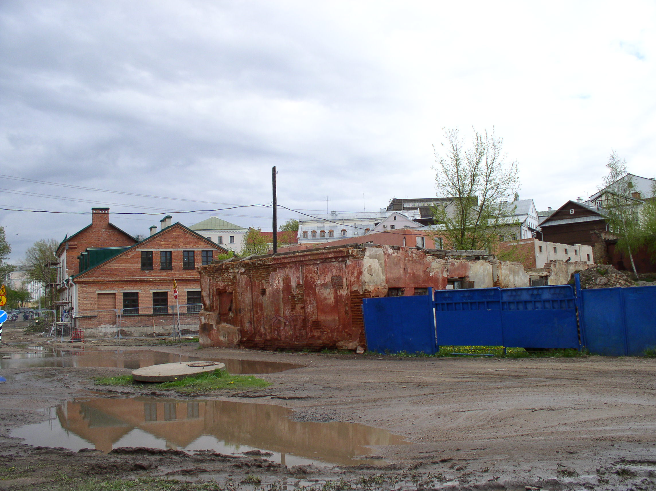 Trade street. Minsk, Belarus.